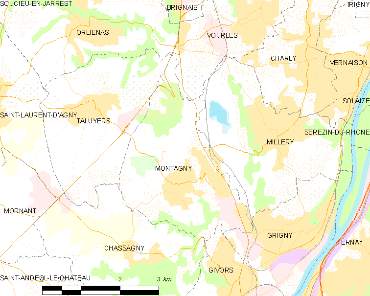 Map of French municipality